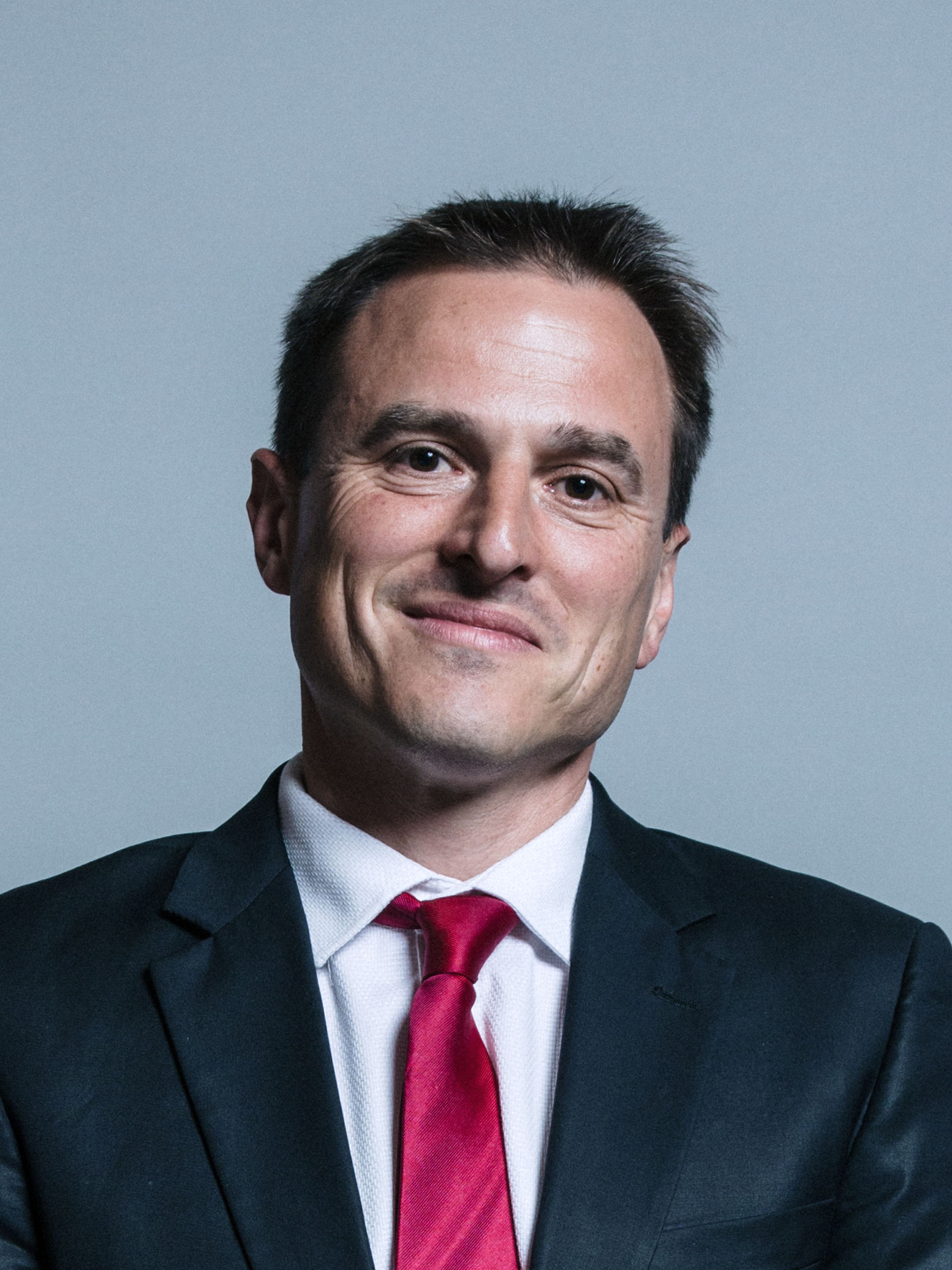 Official portrait of Dr Paul Williams